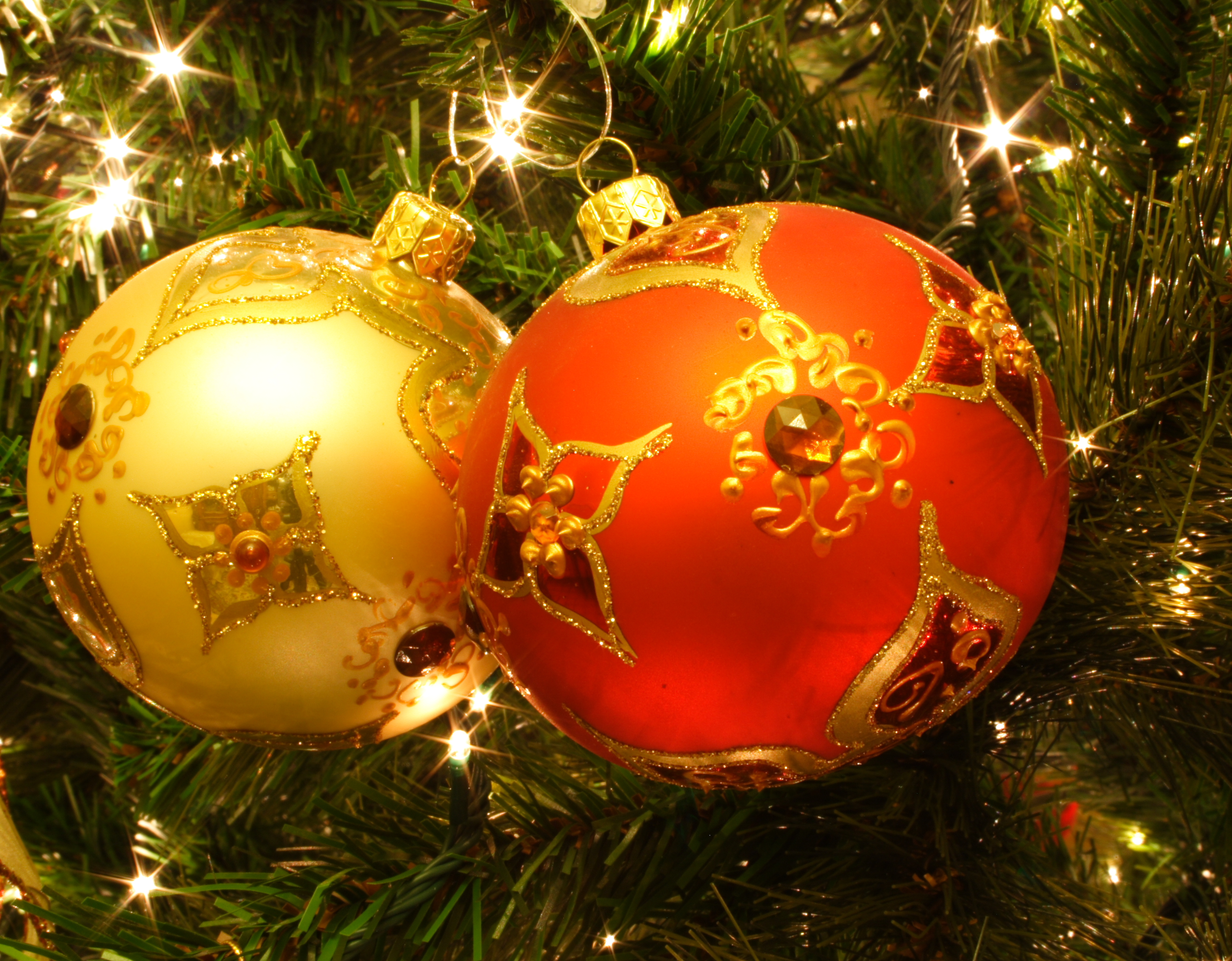 Two glass balls with a Christmas motif